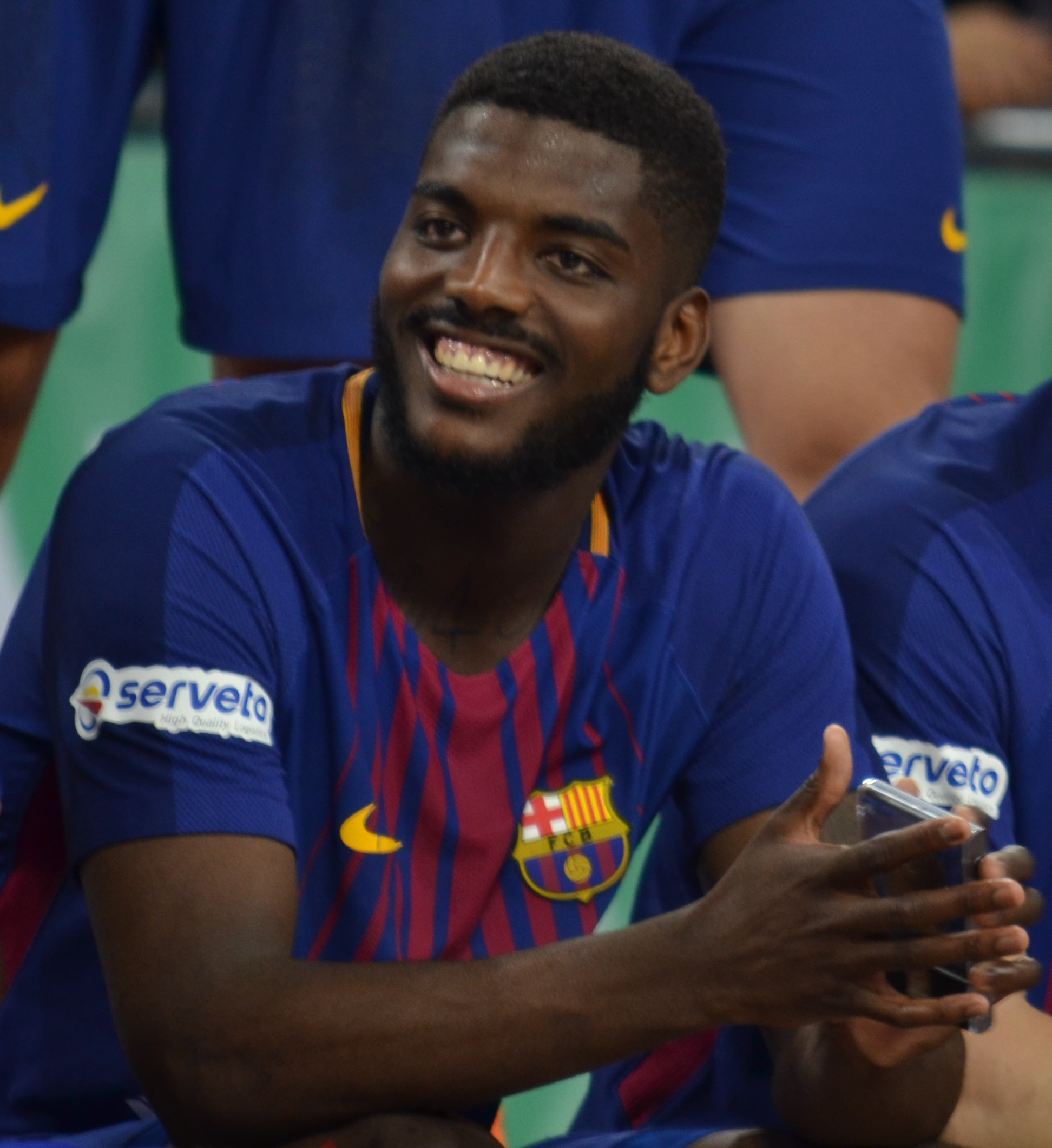 Dika Mem, 19.05.2018 at Palau Blaugrana